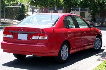 1999 Infiniti G20 Photographed in Stamford, CT.